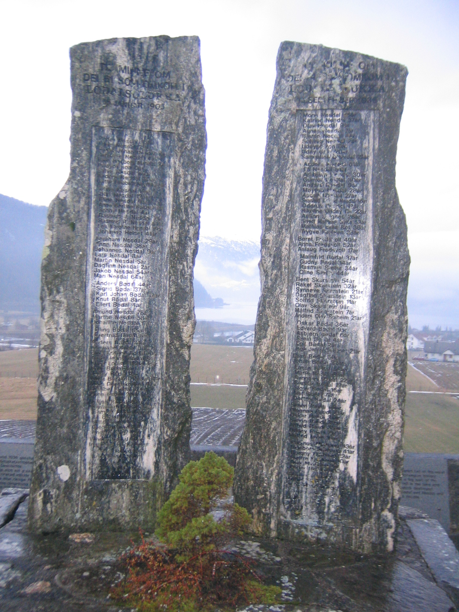 Memorial stones at Loen church of the victims 1905 (left) and 1936 (right)